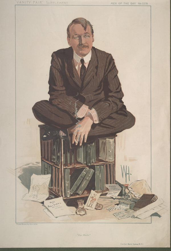 Vanity Fair Men of the Day No.2278: Caricature of Lt-Col Mark Sykes JP FRGS MP. Caption reads: "Our Mark"